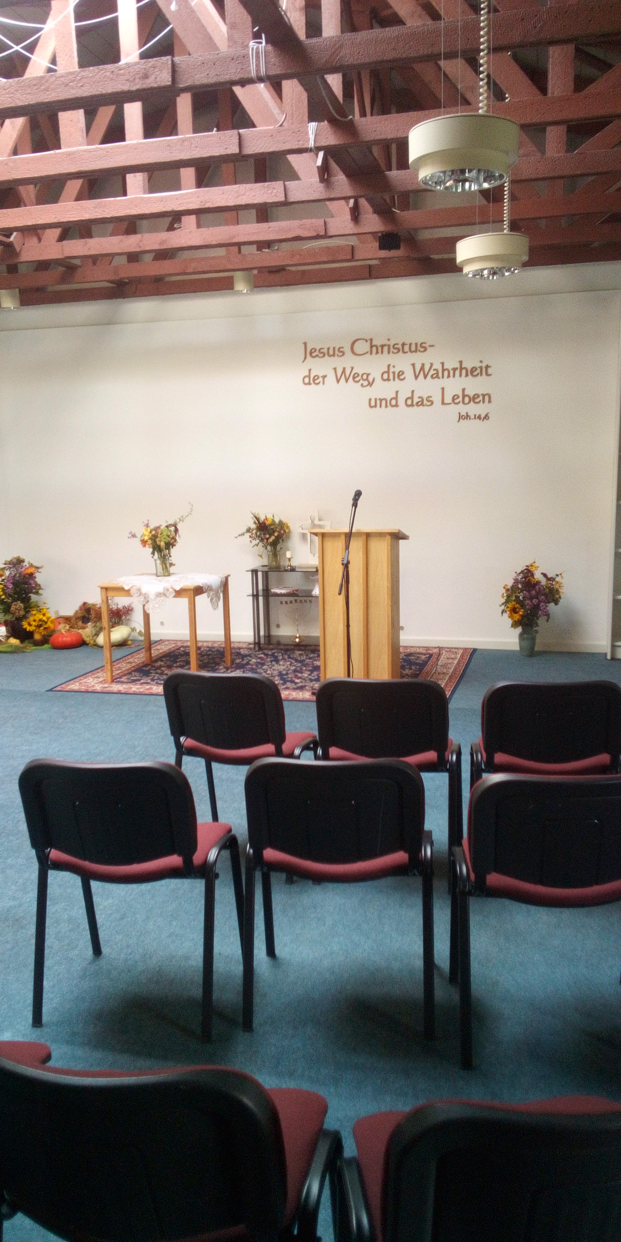 Church in Teltow, Germany, used by two different Free Churches